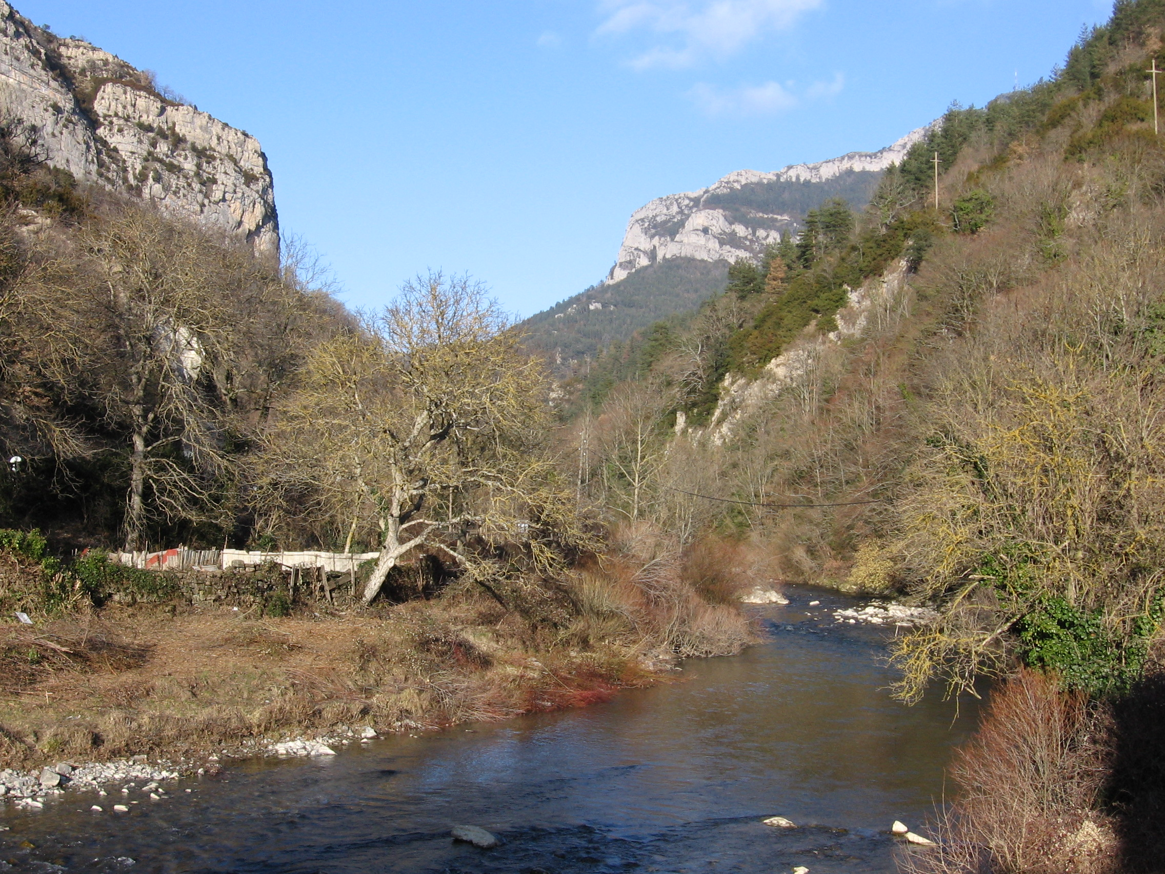 River Esca in the Roncal valley, Urzainqui, Navarra, Spain